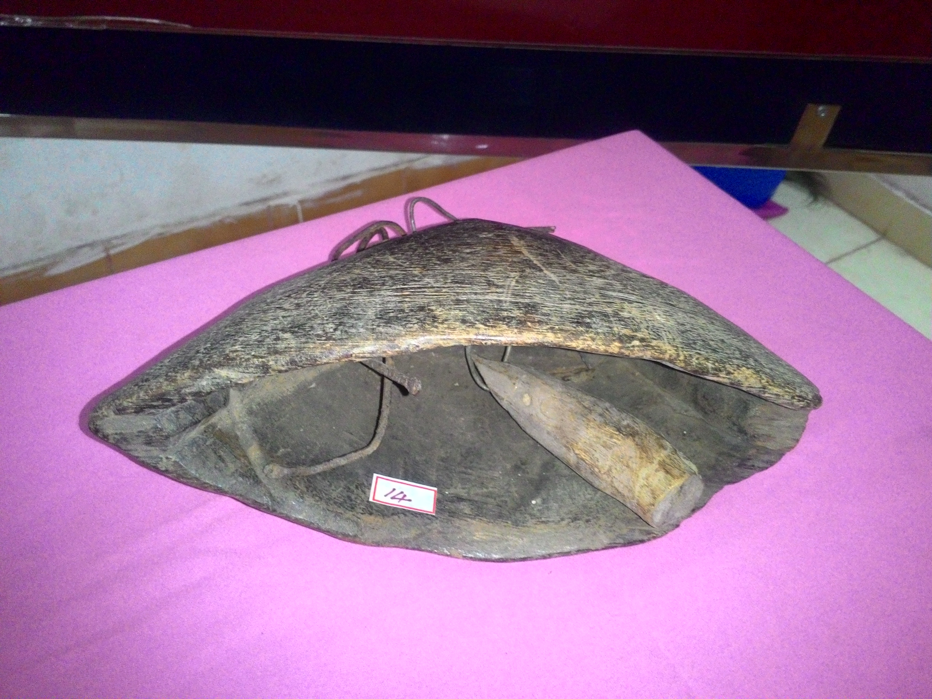 wooden bell used for cow in Kerala